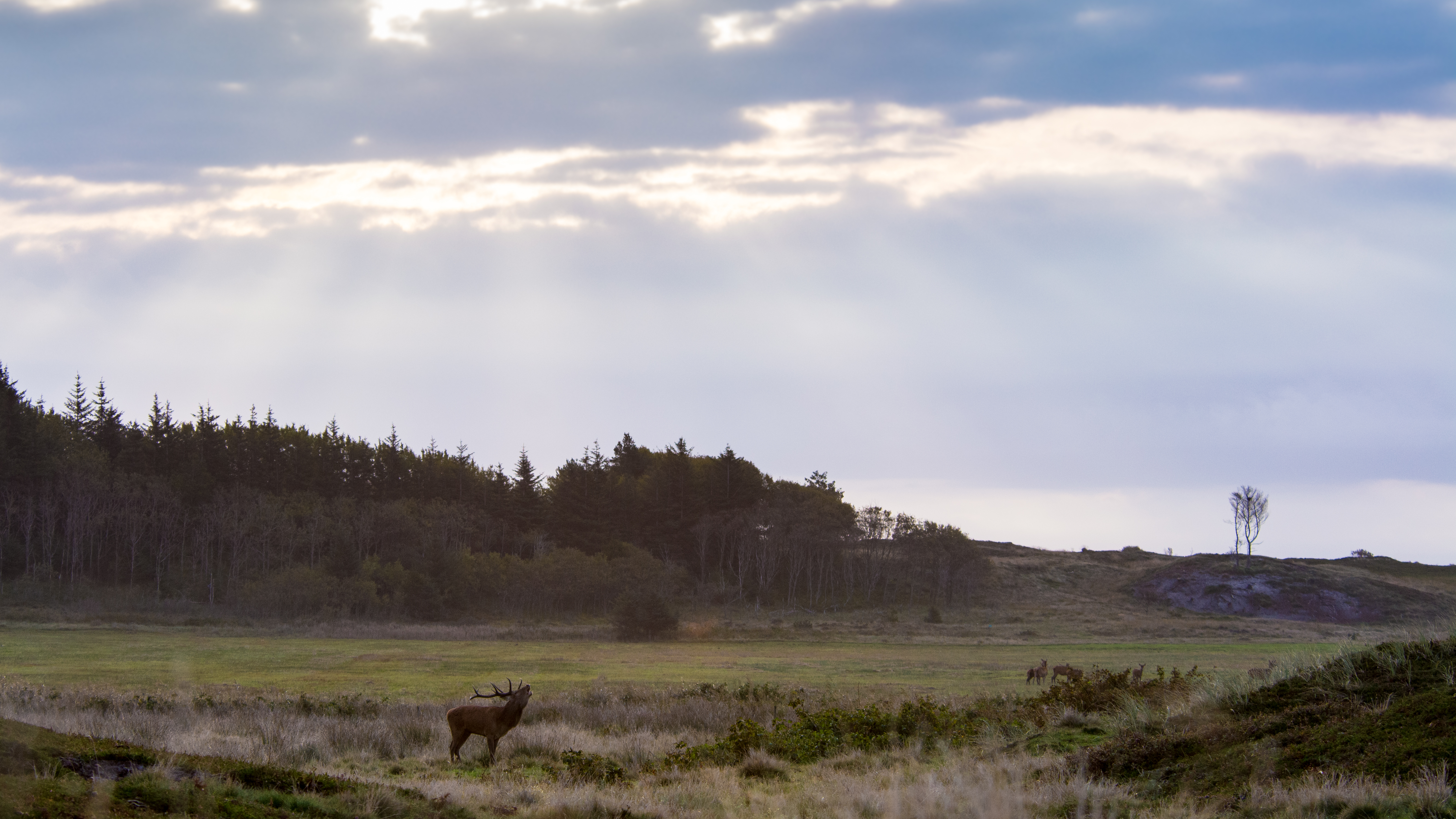 Red Deer roaring in Varde nature